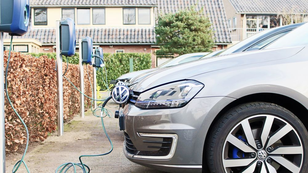 EV-Box's charging station for home charging.